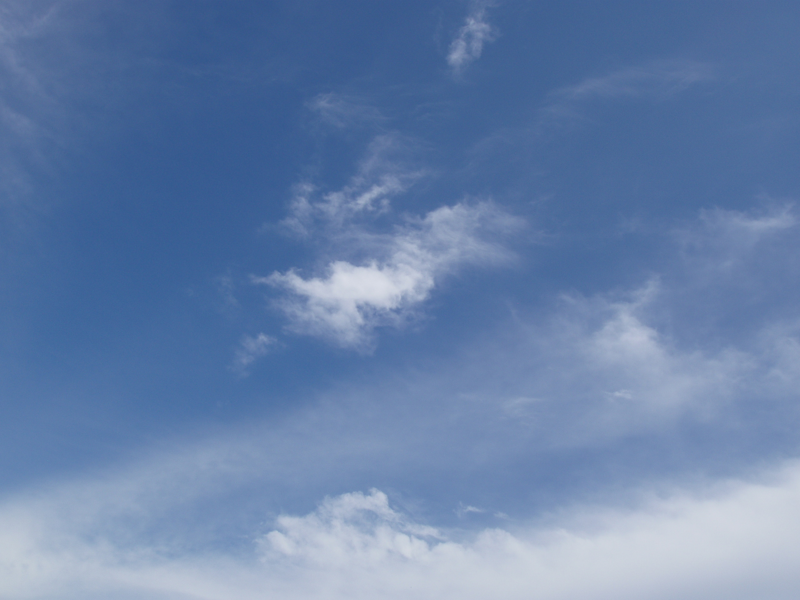 Sky with puffy clouds really.